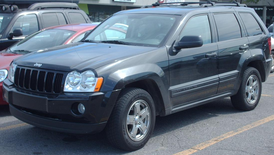 2005-2007 Jeep Grand Cherokee photographed in Montreal, Quebec, Canada.